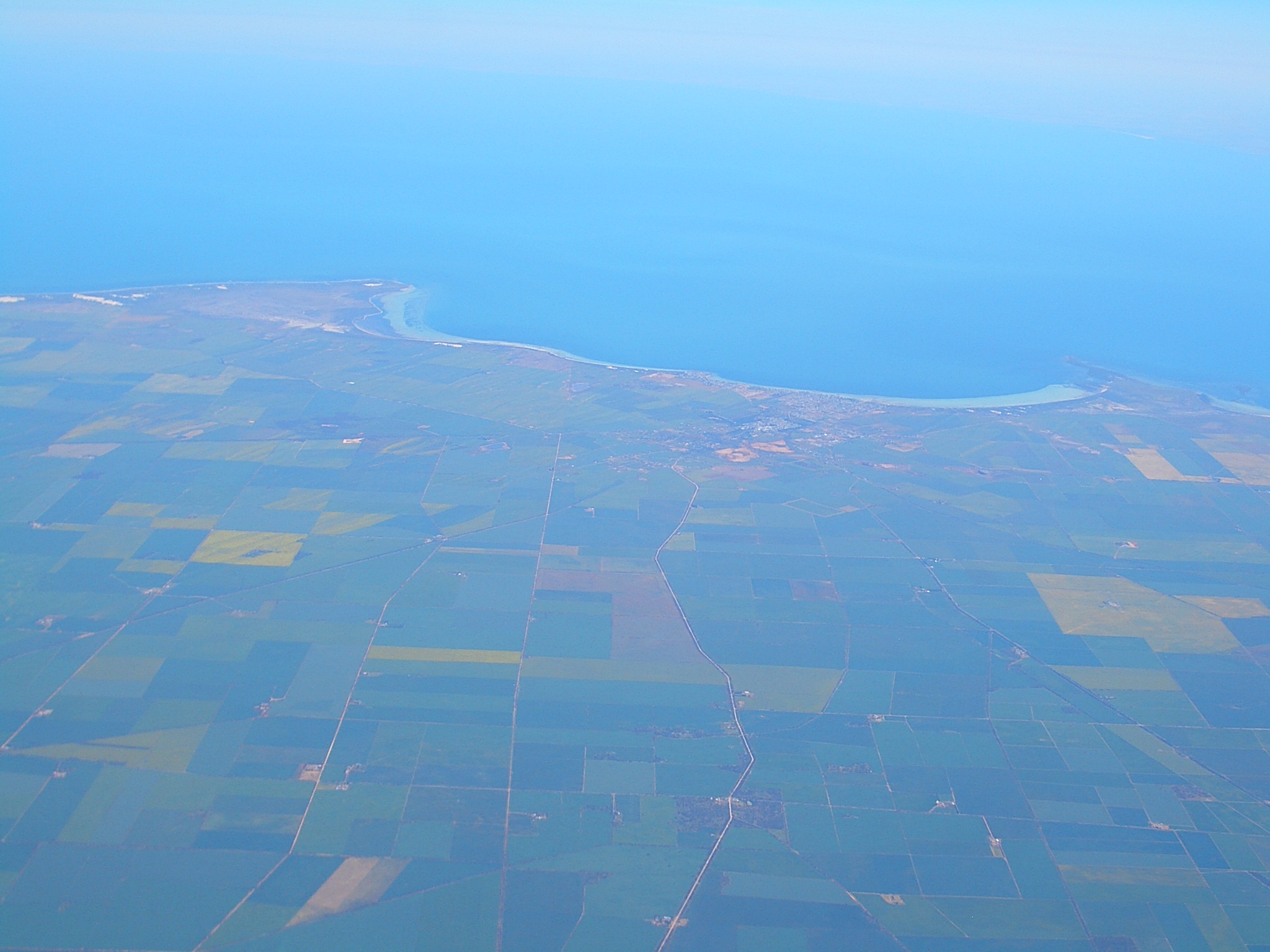 South Australia from the air (Darwin-Adelaide flight). Looking west from Yorke Peninsula into Spencer Gulf. Moonta (on the coast) is in the center.